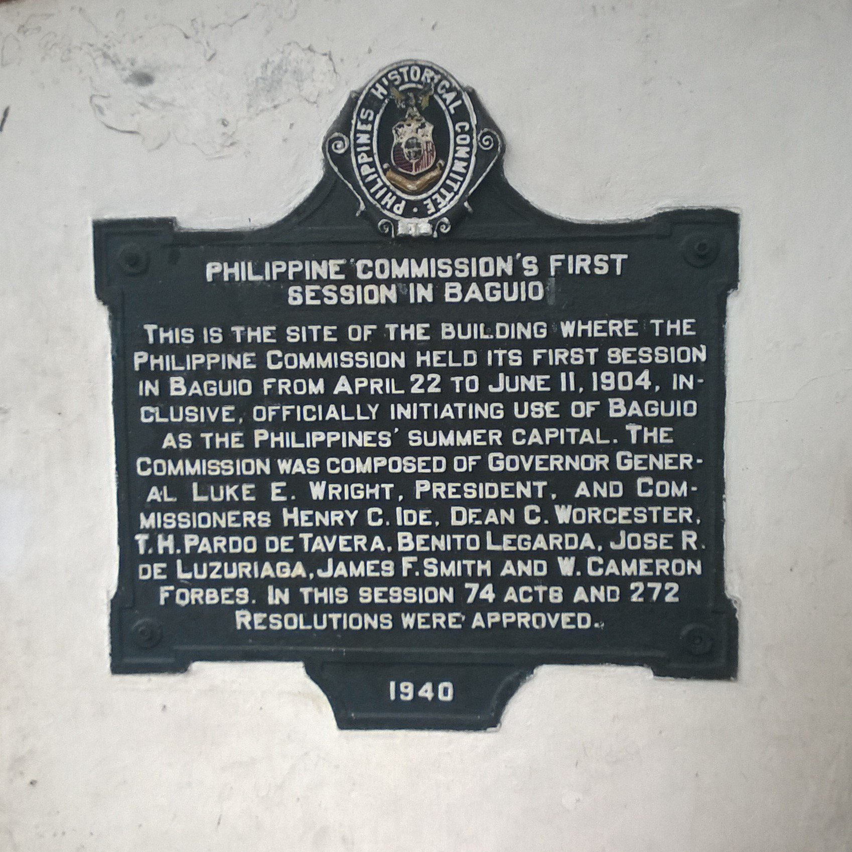 Historical marker commemorating the first Session of the Second Philippine Commission (Taft Commission) to be held in Baguio City, Philippines